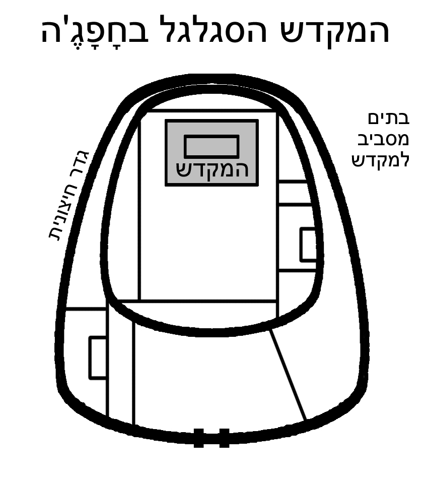 Eshnunna-Khafajah: the Oval Temple